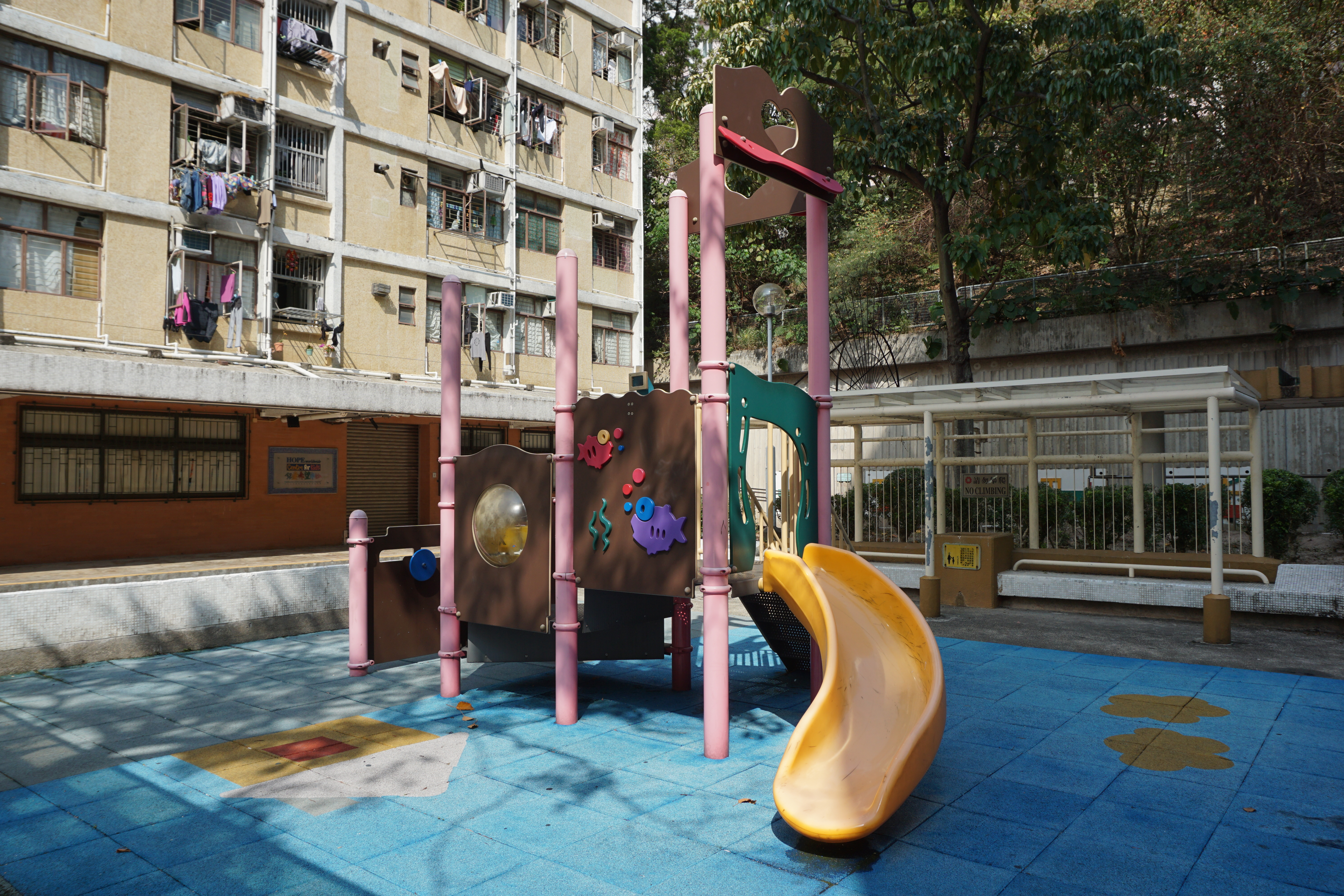 Tai Hang Tung Estate in Shek Kip Mei, Hong Kong.